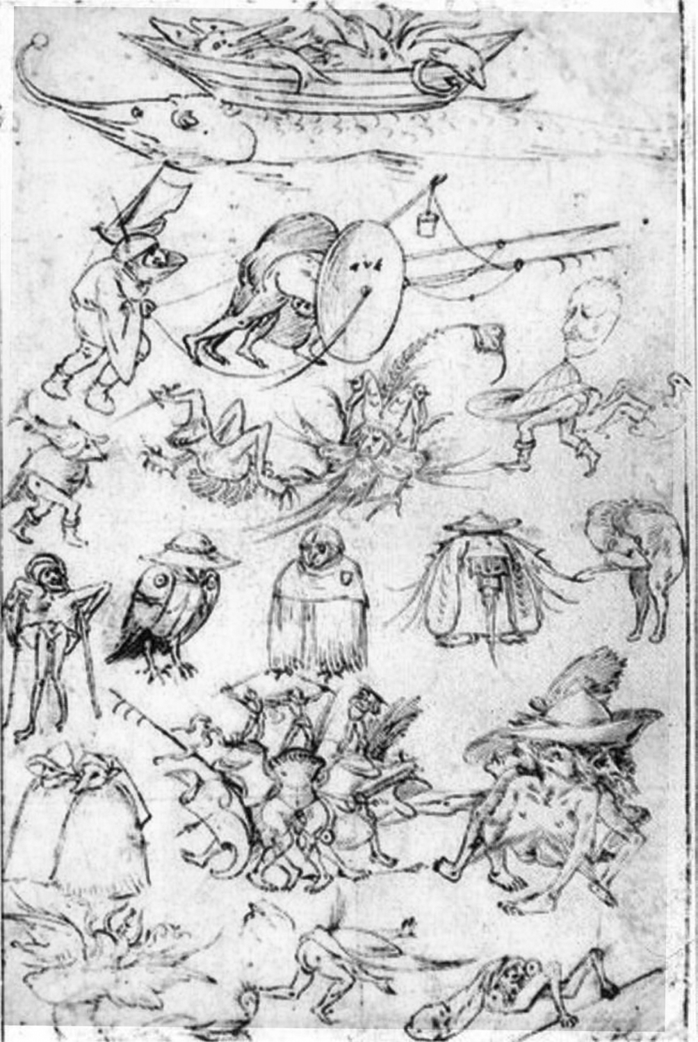 Front of a two-sided drawing. For the reverse, see File:BoschStudiesOfMonsters.jpg.